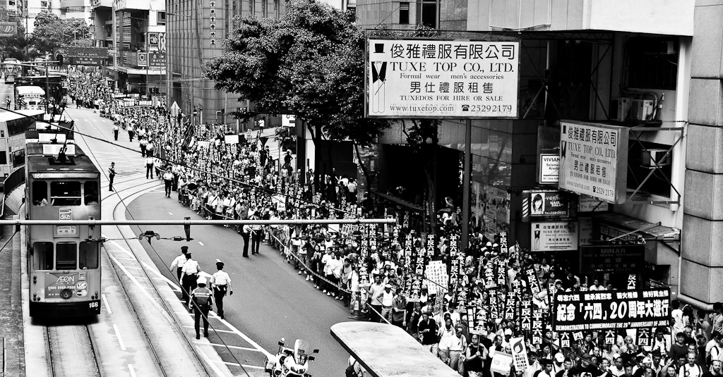 20th anniversary of the June 4th incident. A protest in HK on May 31, 2009